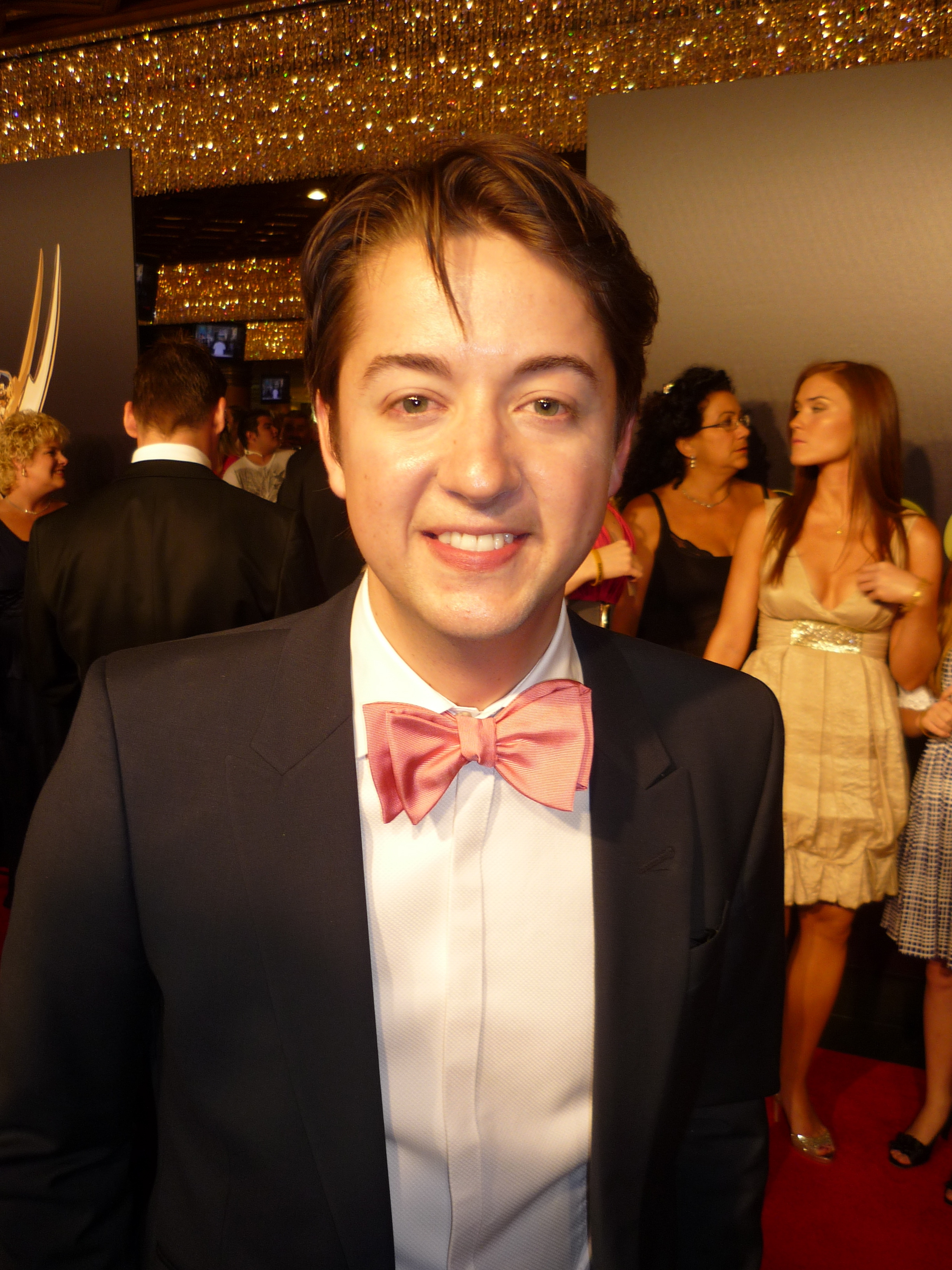 Actor Bradford Anderson at 2010 Daytime Emmy Awards.